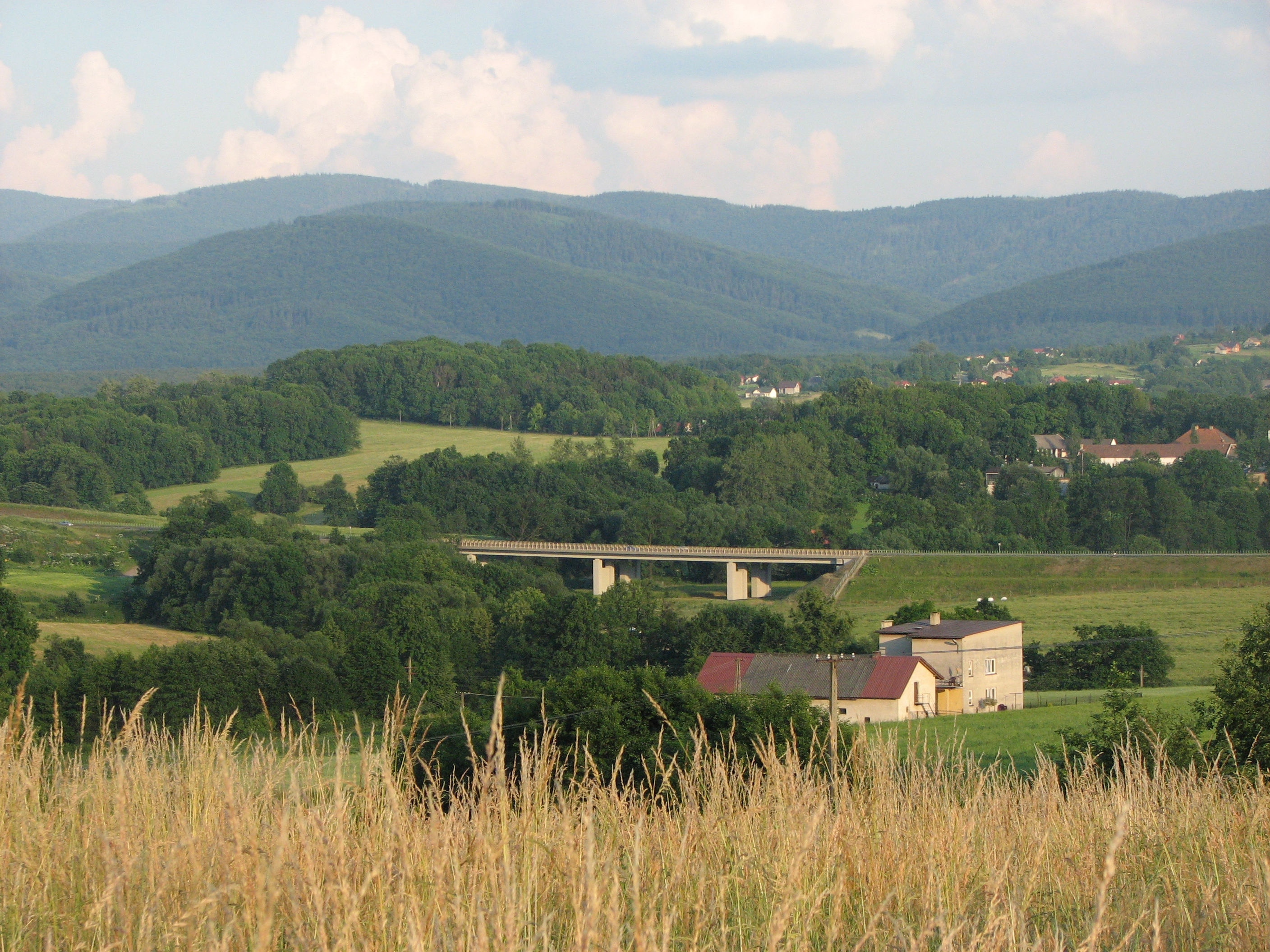 S1 express road in Grodziec seen from Bielowicko, in background: Silesian Beskids